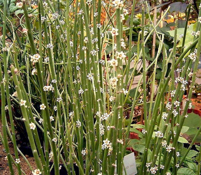 Euphorbia antisyphilitica BG Bochum, Germany